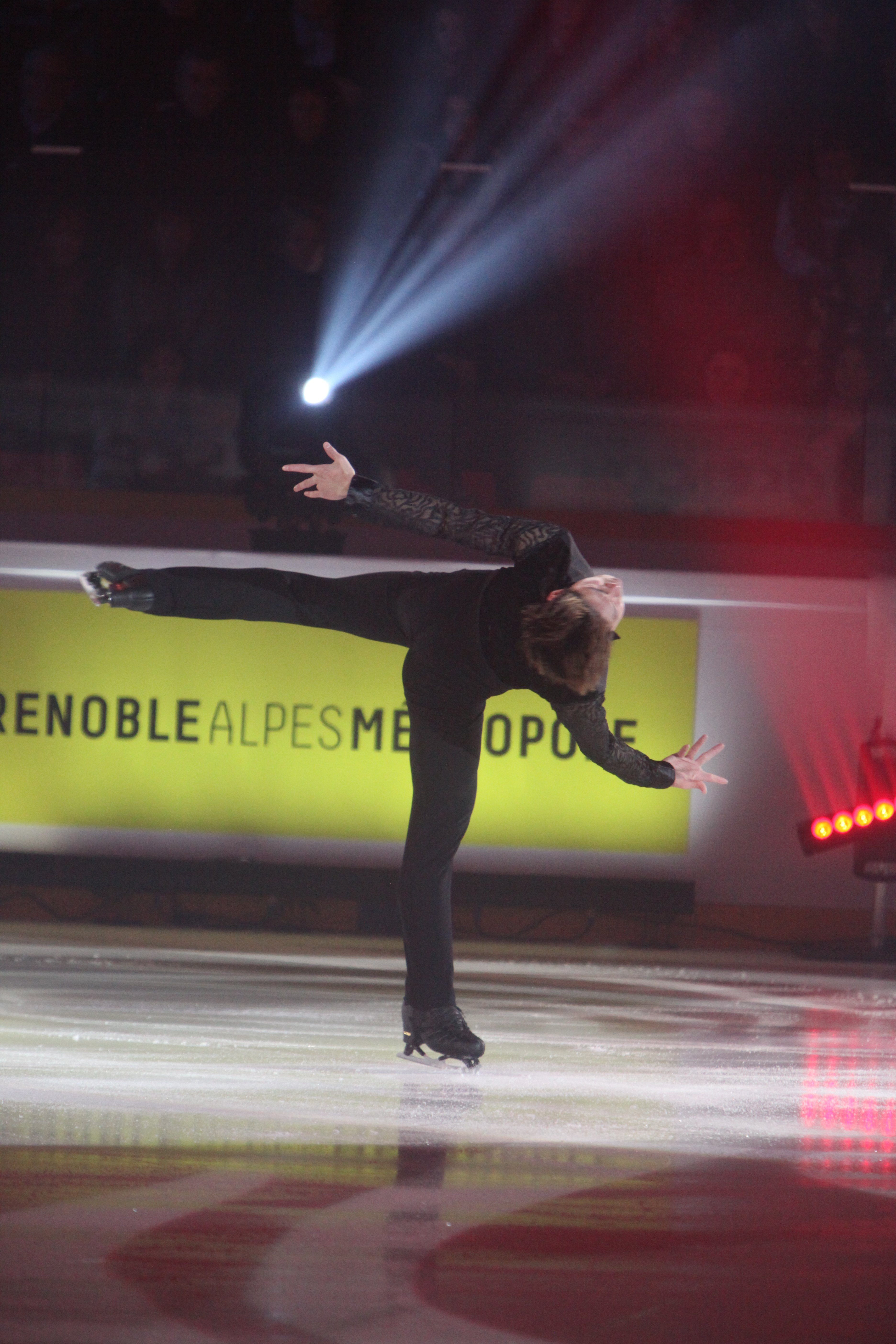 Keiji Tanaka during the gala at the Internationaux de France de Patinage 2018.